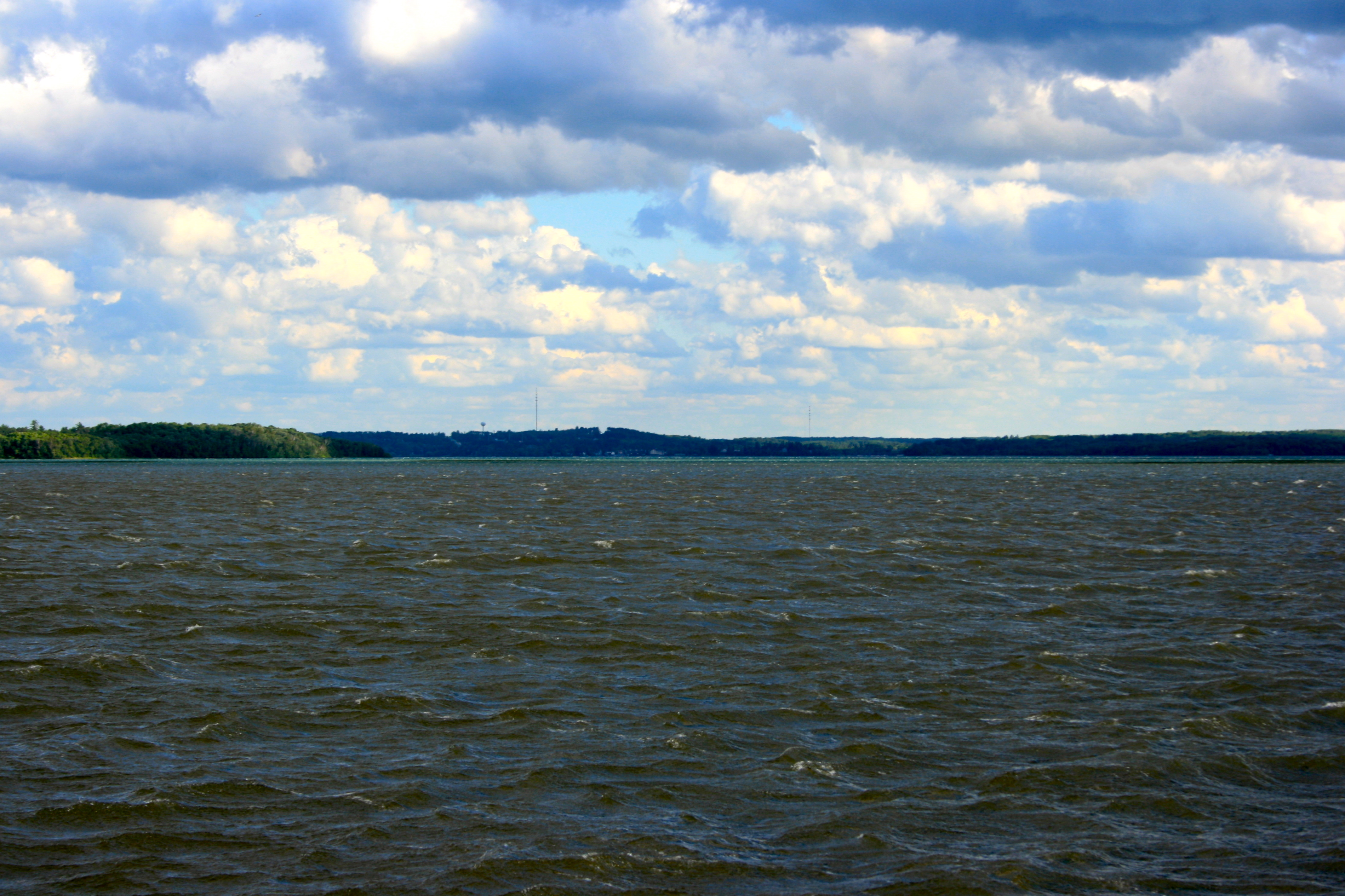 A view of Leech Lake's Walker Bay as seen from Oak Point on the east side of Steamboat Bay looking south. The city of Walker, Minnesota can be seen in the center, with Sand Point appearing on the right, and Cedar point on the left. Also, the Narrows, connecting the larger portion of the lake to the smaller eastern half can be seen on the left.